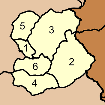 Map of Na Yong district, Trang province, Thailand, with the communes (tambon) numbered. Na Yong Nuea (นาโยงเหนือ) Chong (ช่อง) La Mo (ละมอ) Khok Saba (โคกสะบ้า) Na Muen Si (นาหมื่นศรี) Na Khao Sia (นาข้าวเสีย)